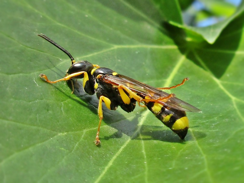 Mellinus arvensis (Crabronidae sp.), Arnhem, the Netherlands